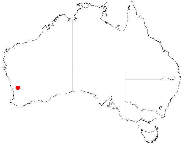 Acacia botrydion Occurrence data from Australasian Virtual Herbarium downloaded from on 8 December 2018